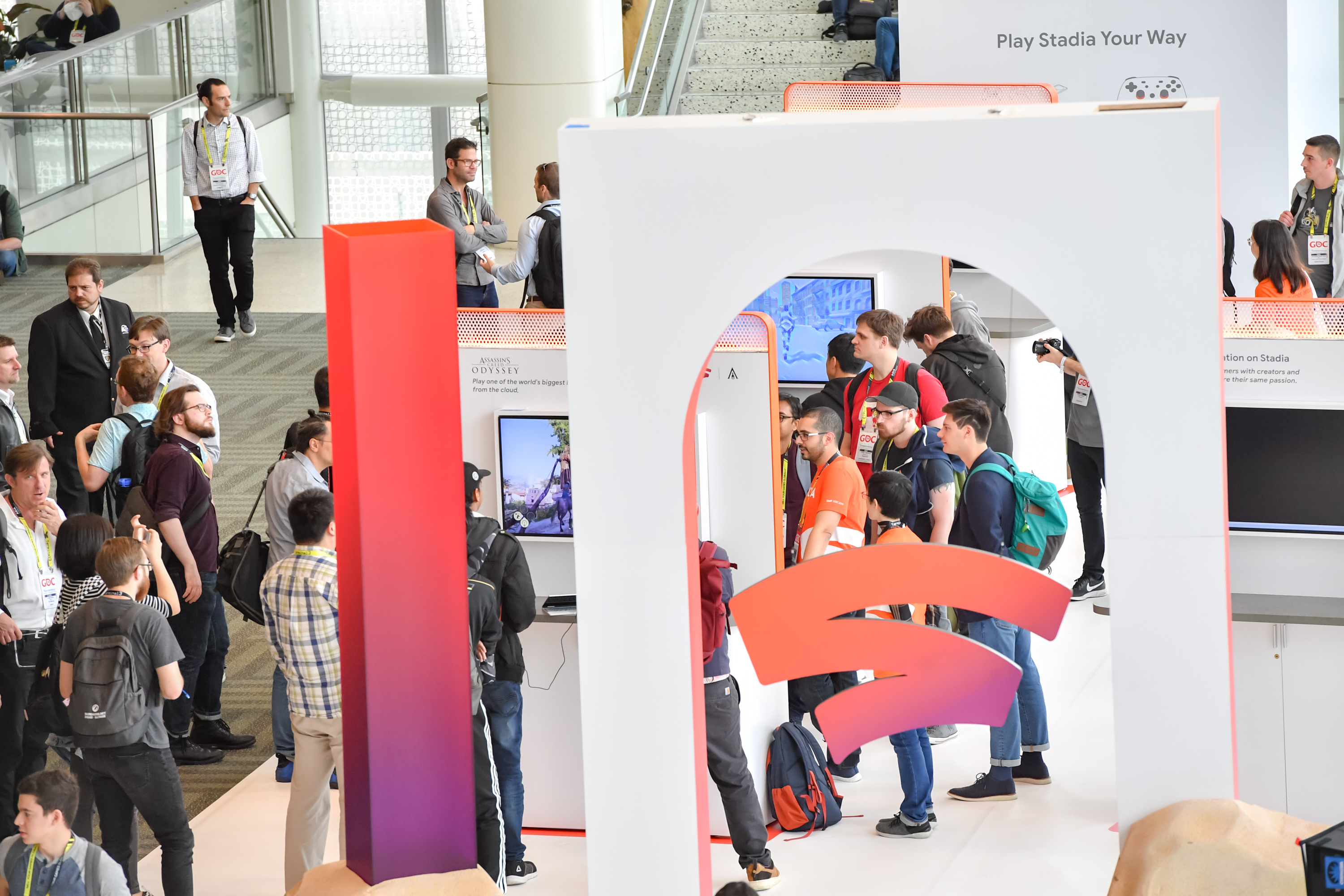 Google Stadia's demonstration area at the 2019 Game Developers Conference 2019